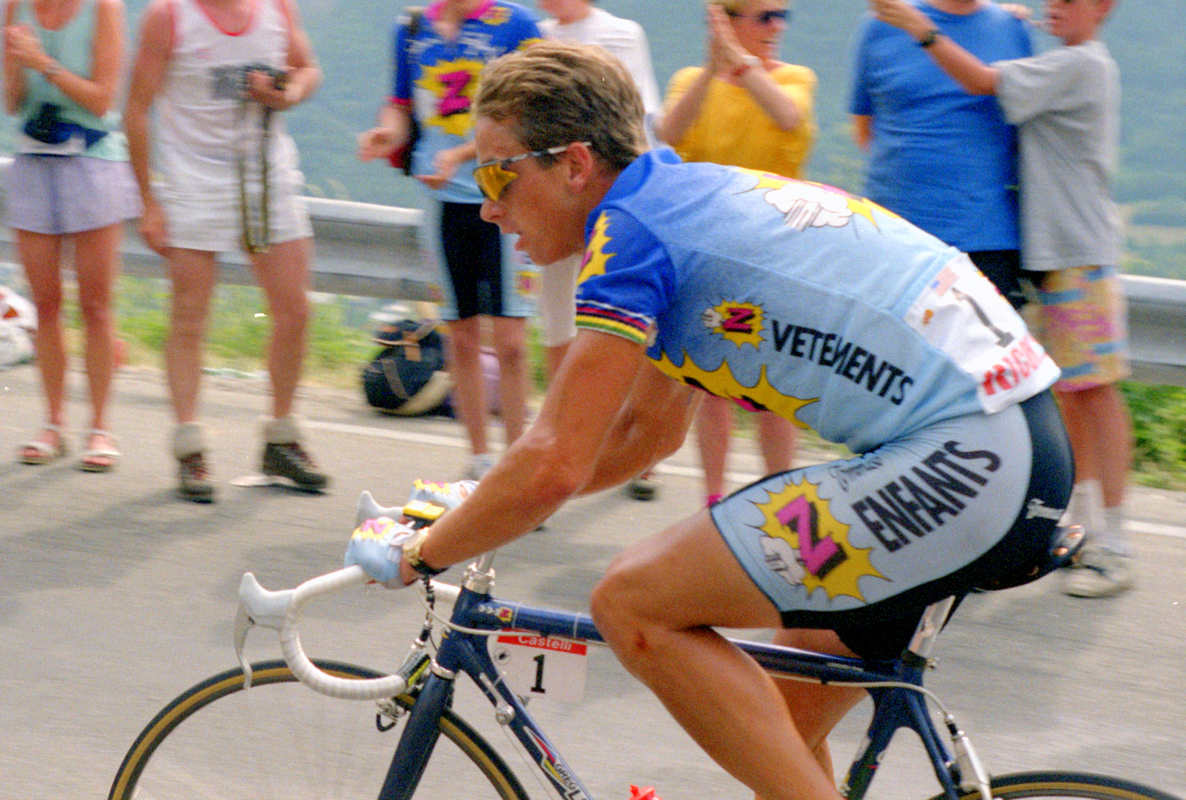 Greg Lemond riding on the lower slopes of Alpe D'Huez during the Tour De France, July 1991